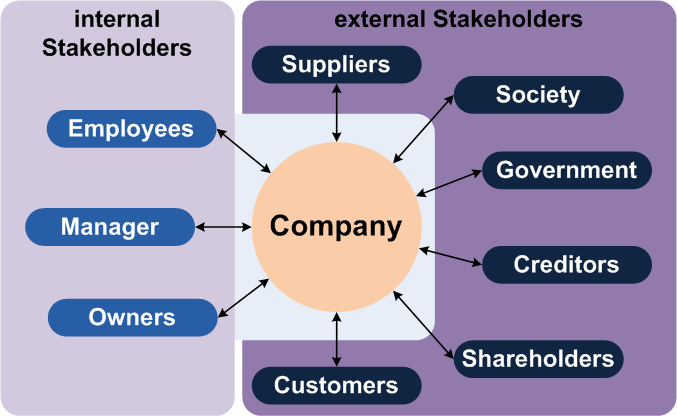 The picture shows the typical stakeholders of a company. The stakeholders are divided in internal and external stakeholders.